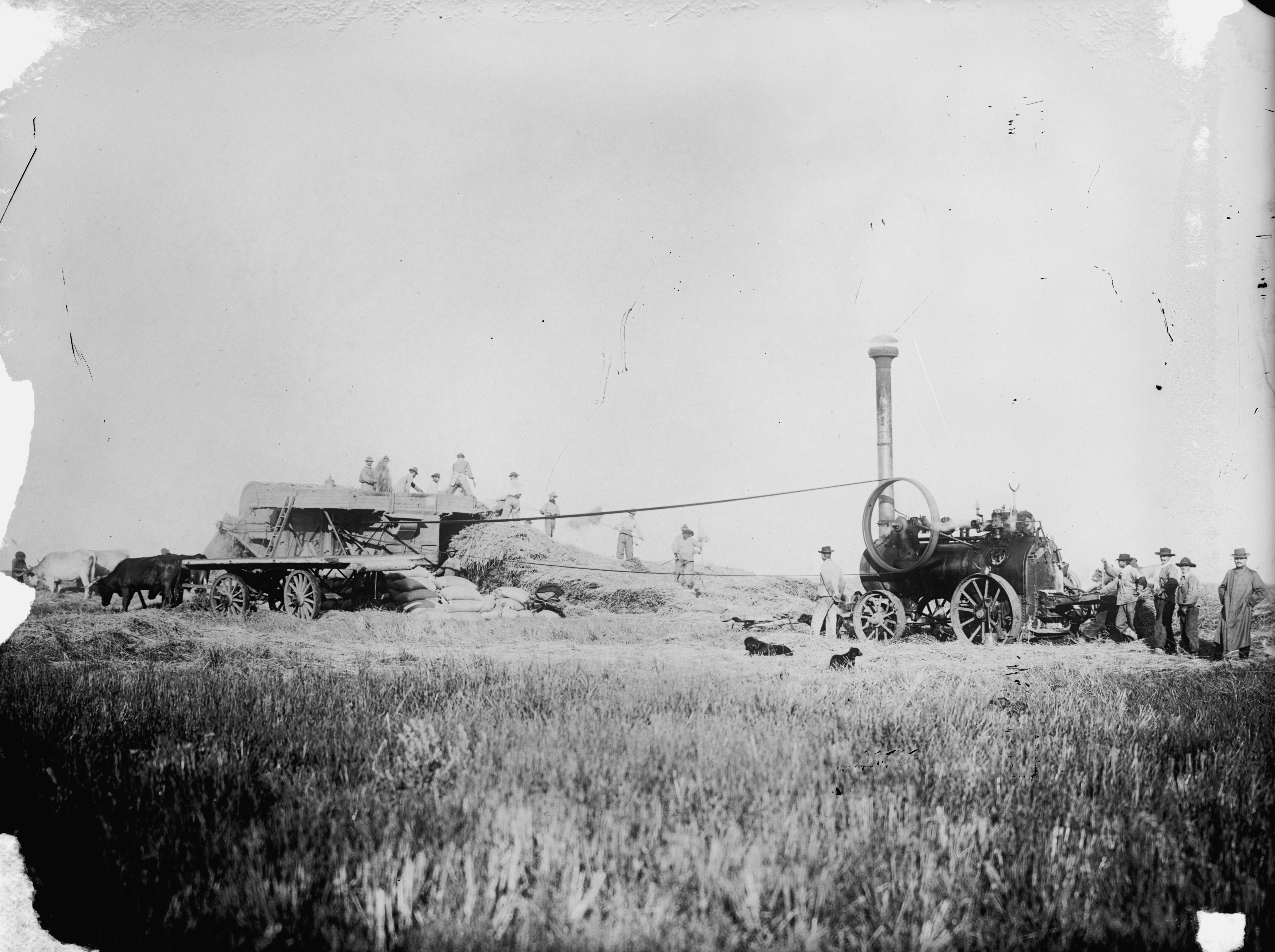 Threshing scene, Buenos Aires